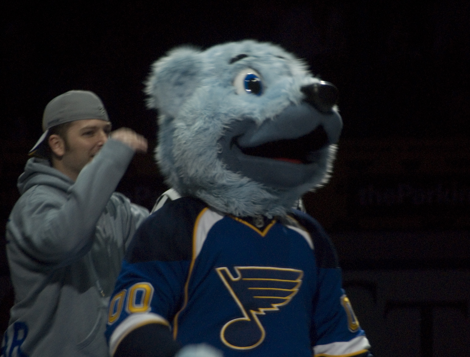 St.Louis Blues mascot Louie. Anaheim Ducks versus St. Louis Blues. National Hockey League (NHL) Blues won 9-3 at Scottrade Center in St. Louis, Missouri. Taken by Sarah Connors on February 19, 2011 in using a Nikon D200. This photo also appears in Sarah Connors' Flickr set "Blues vs. Ducks, 2/19/11" (Set of 105).